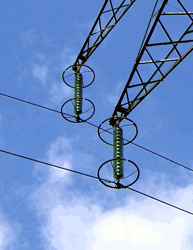 Insulator strings supporting a 225 kV power transmission line near Fessenheim nuclear power station, France. The metal rings around the top and bottom of the insulators are called corona rings. They serve to reduce the potential gradient at sharp points to prevent corona discharge, a leakage of current into the air.